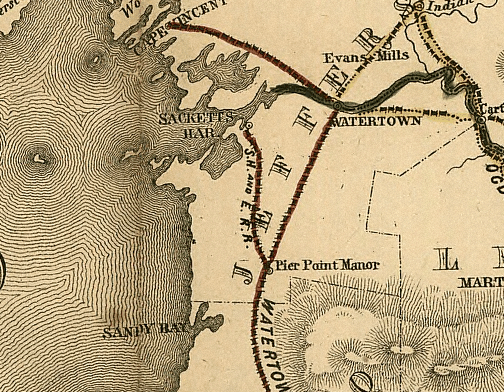 The Sackets Harbor & Ellisburgh Railroad Company ca. 1855